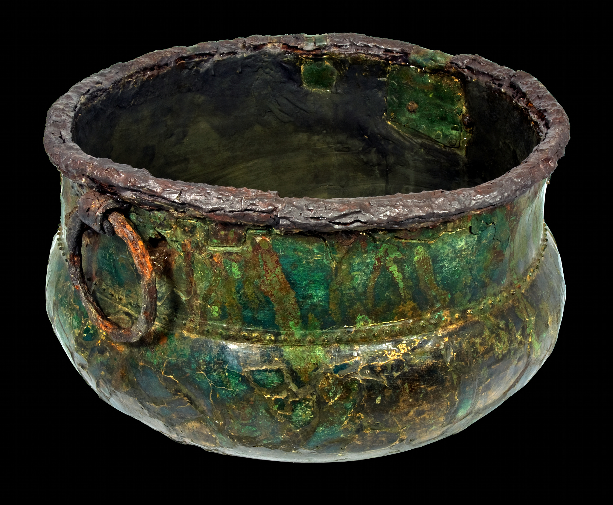 Roman bronze cauldron from the grave goods of the Lombard warrior's grave Putensen 150